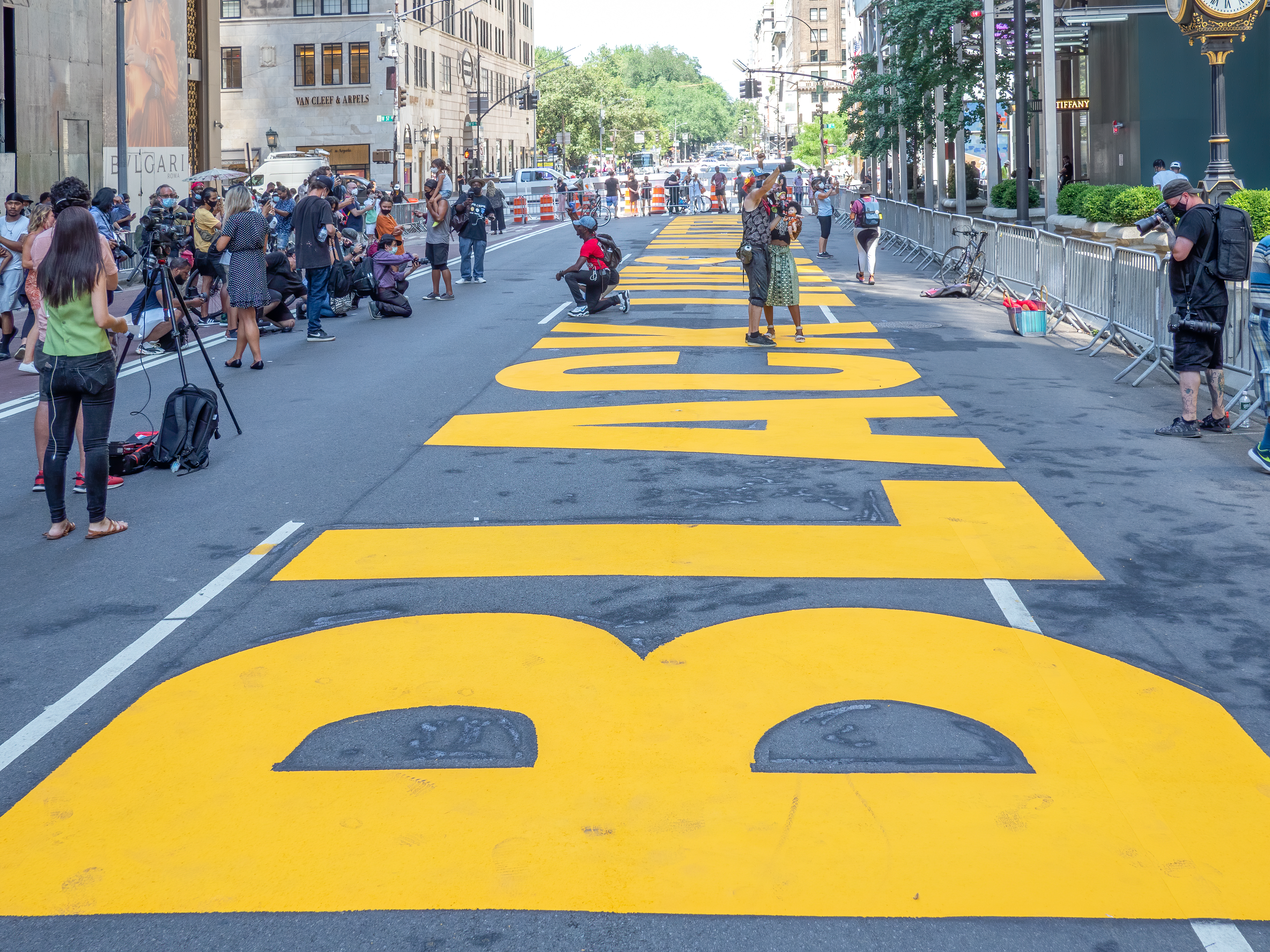 Black Lives Matter mural on 5th Avenue in New York City in front of Trump Tower